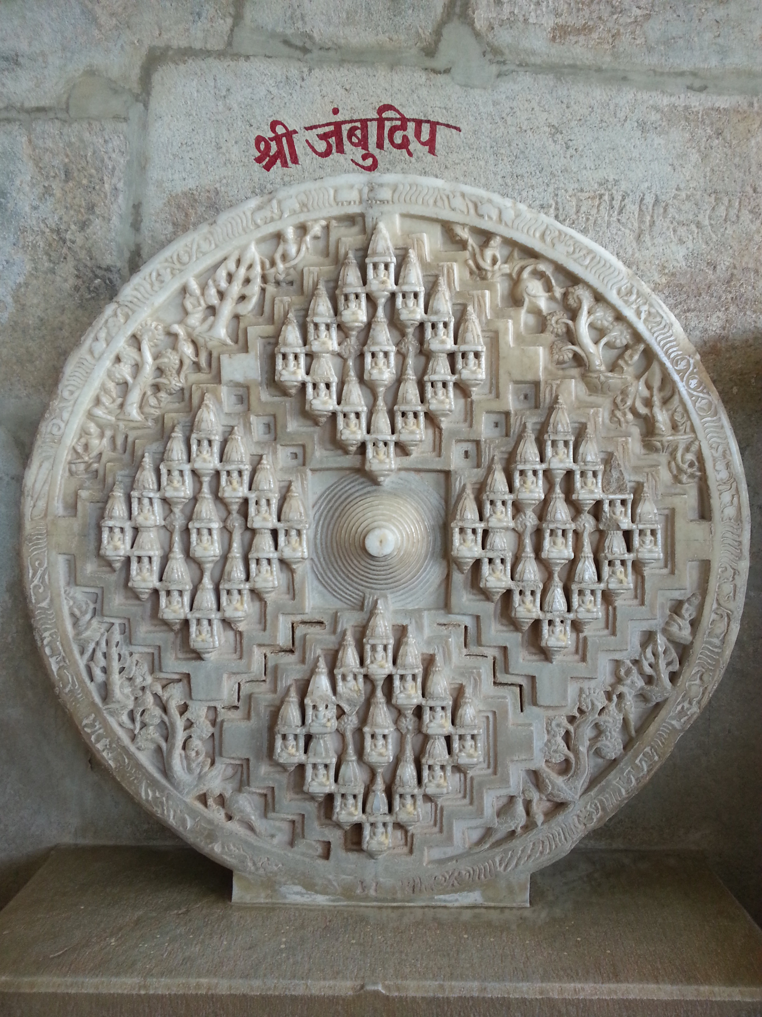 A carving depicting Jambudweep श्री जम्बूदीप